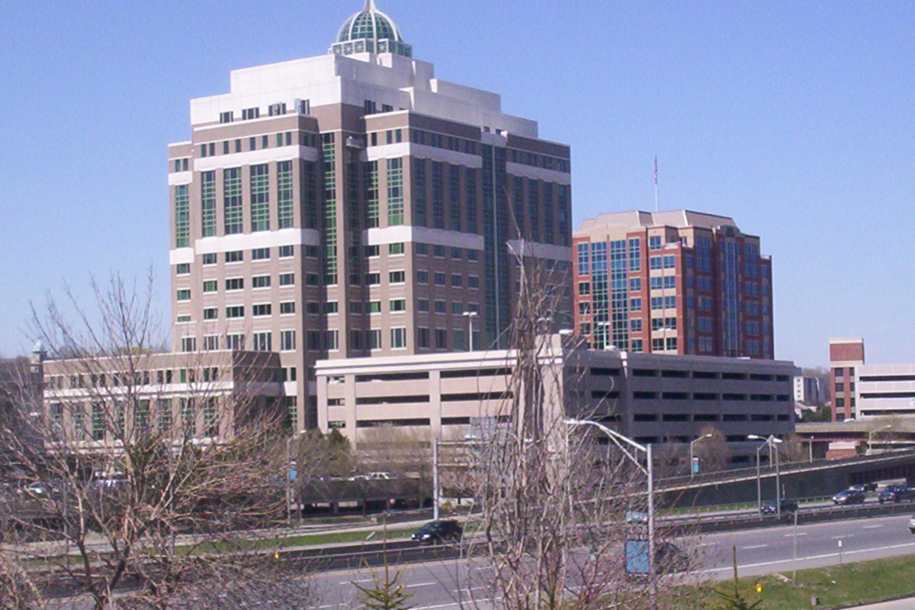 Headquarters of the New York State Department of Environmental Conservation on Broadway in Albany, New York, United States